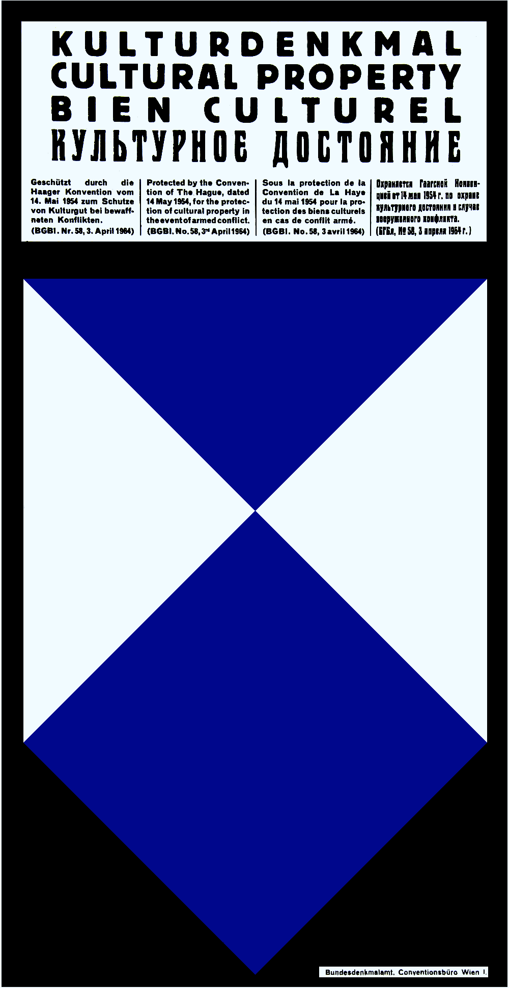 Marking of Cultural-Property in Austria Hague Convention for the Protection of Cultural Property in the Event of Armed Conflict.